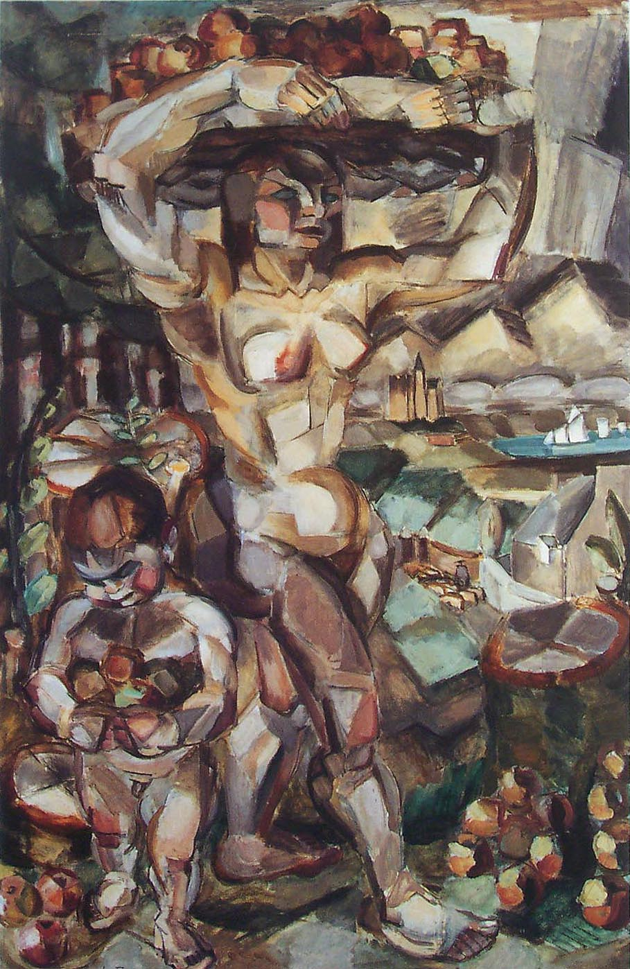 Henri Le Fauconnier, 1910-11, L'Abondance (Abundance), oil on canvas, 191 x 123 cm (75.25 x 48.5 inches), Gemeentemuseum Den Haag. Exhibited at the 1911 Salon des Indépendants